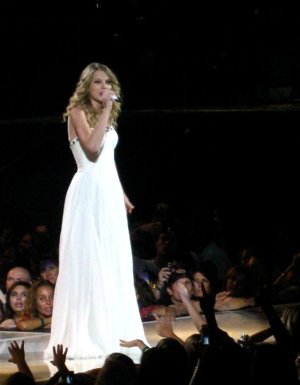 Country singer Taylor Swift performing on her 2009 stop in Jacksonville, Florida of the Fearless Tour.